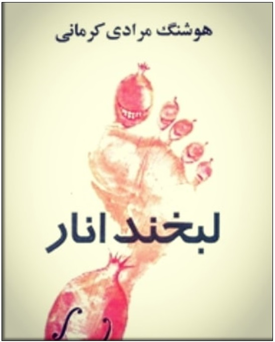 Labkhand-e-anar (cover book)